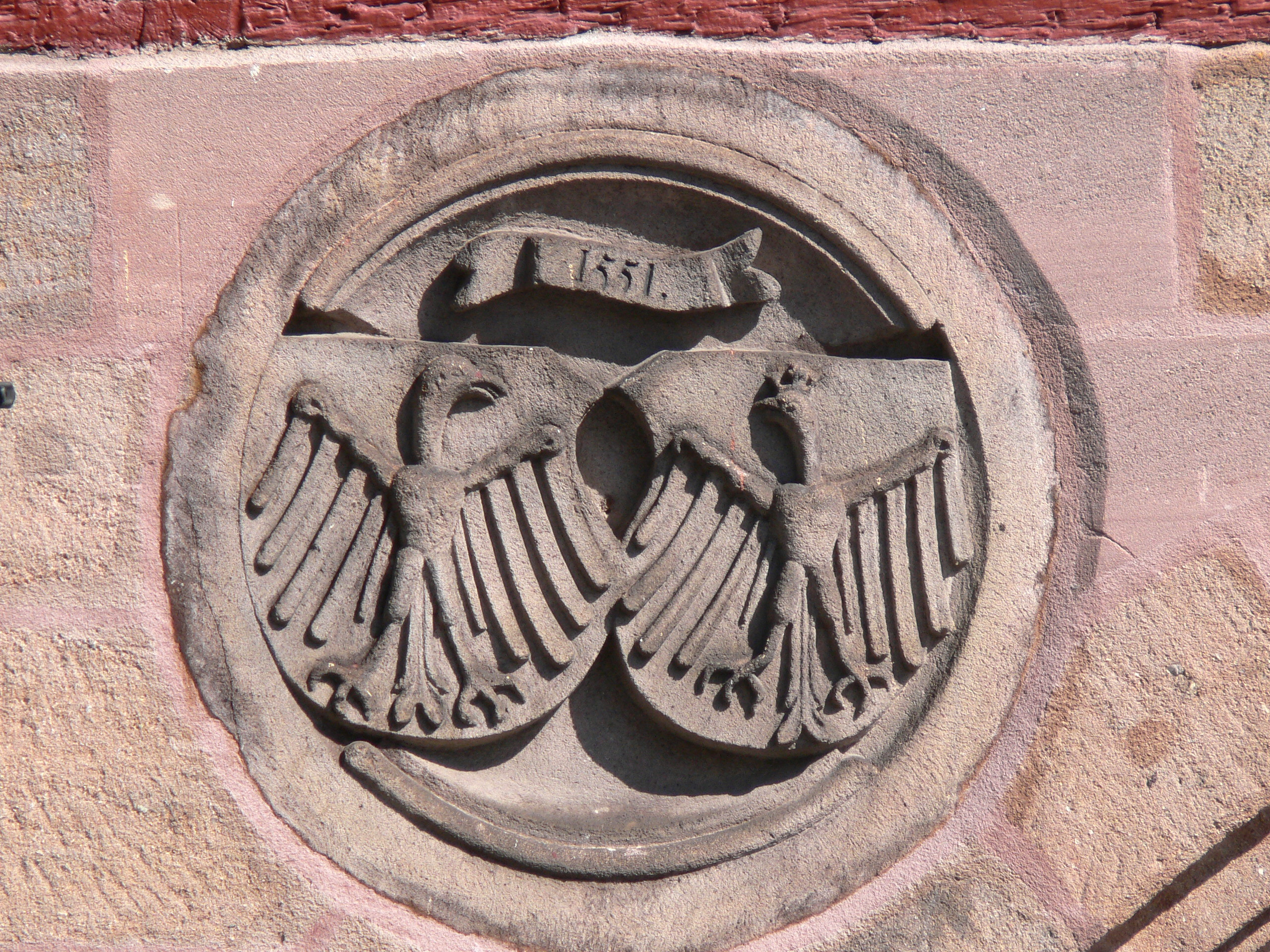 Schwabach. Coats of arms with eagles ( 1551 ) at the townhall